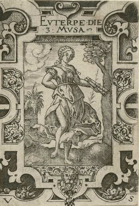 Muse Euterpe from the illustrations to Ovid by Virgil Solis (1562).